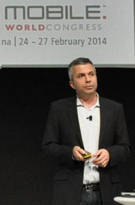 Yuval Ben-Itzhak keynote presentation at Mobile world congress 2014